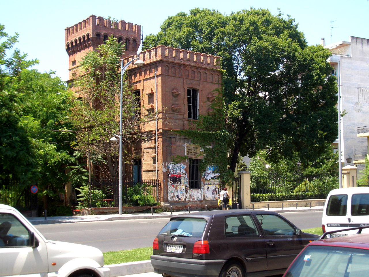 Chateau mon bonheur mansion on Queen Olga Street, Thessaloniki